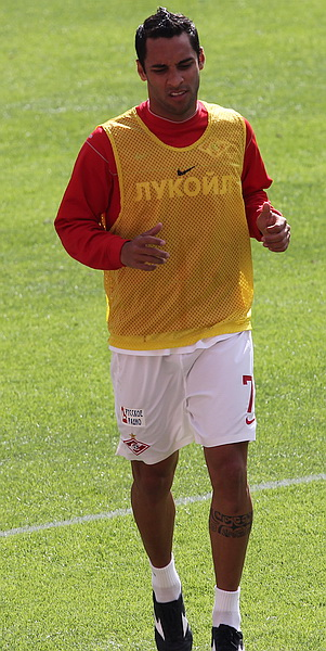 Ibson